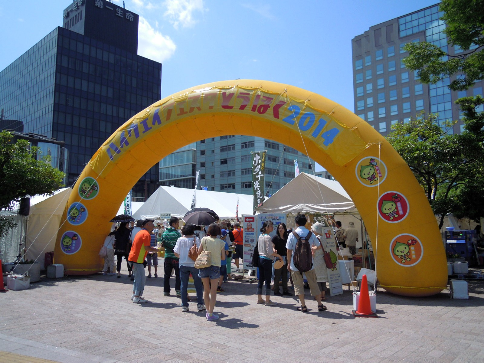 The "Highway Festival Tohoku 2014" at Kotodai Park, Sendai, Japan.